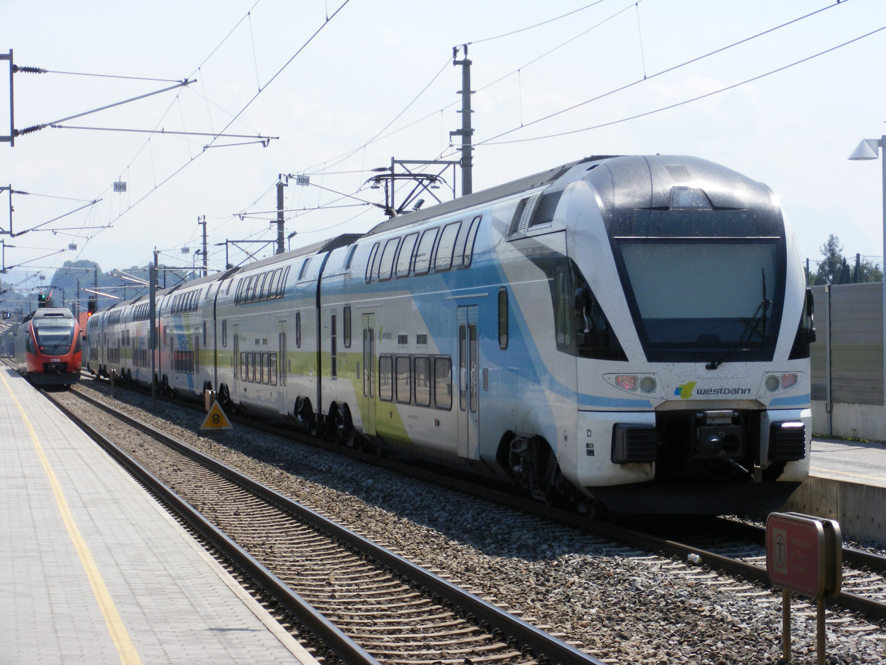 A train set of the WESTbahn at train stop Salzburg Taxham Europark, city of Salzburg, Austria; in the distance: a FLIRT train set of the ÖBB (Austrian Federal Railways).